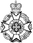 Royal Army Chaplains Dept Cap Badge